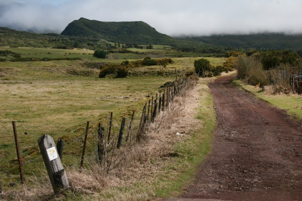 The peak Turtle dominates the background the forest road site